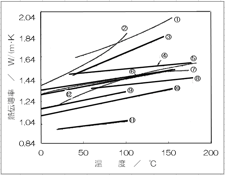 Thermal conductivity of transparent quartz glass